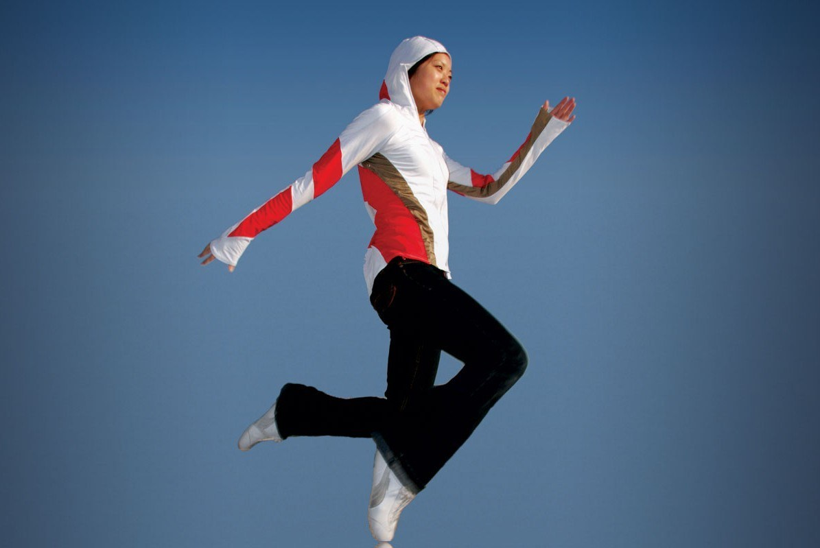 Model wearing the 2006 version of the HugShirt